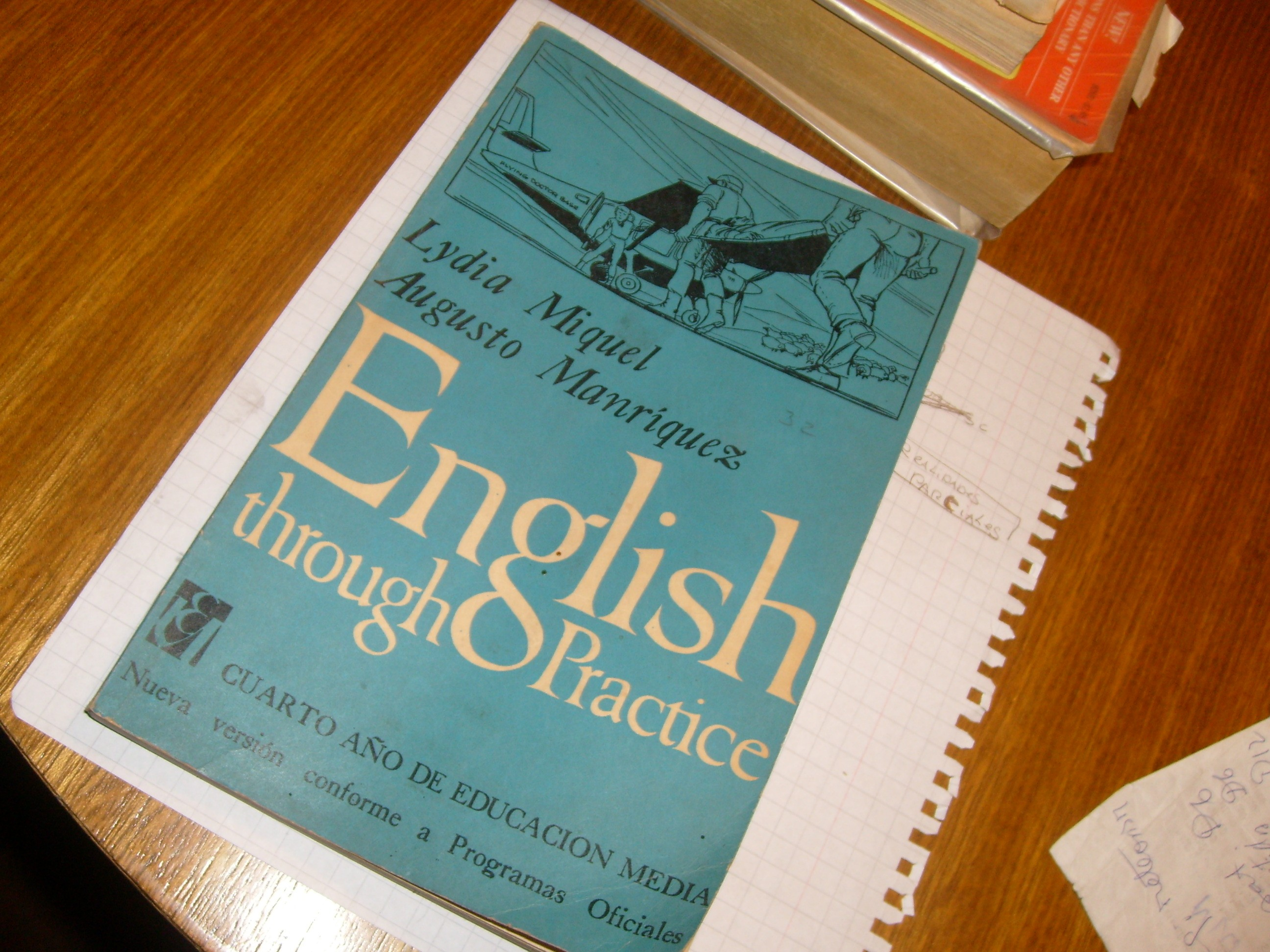 English textbook, as second language Miquel L, Manríquez A and Ewer J. editorial Universitaria inscripcion nr 39635 Santiago Chile